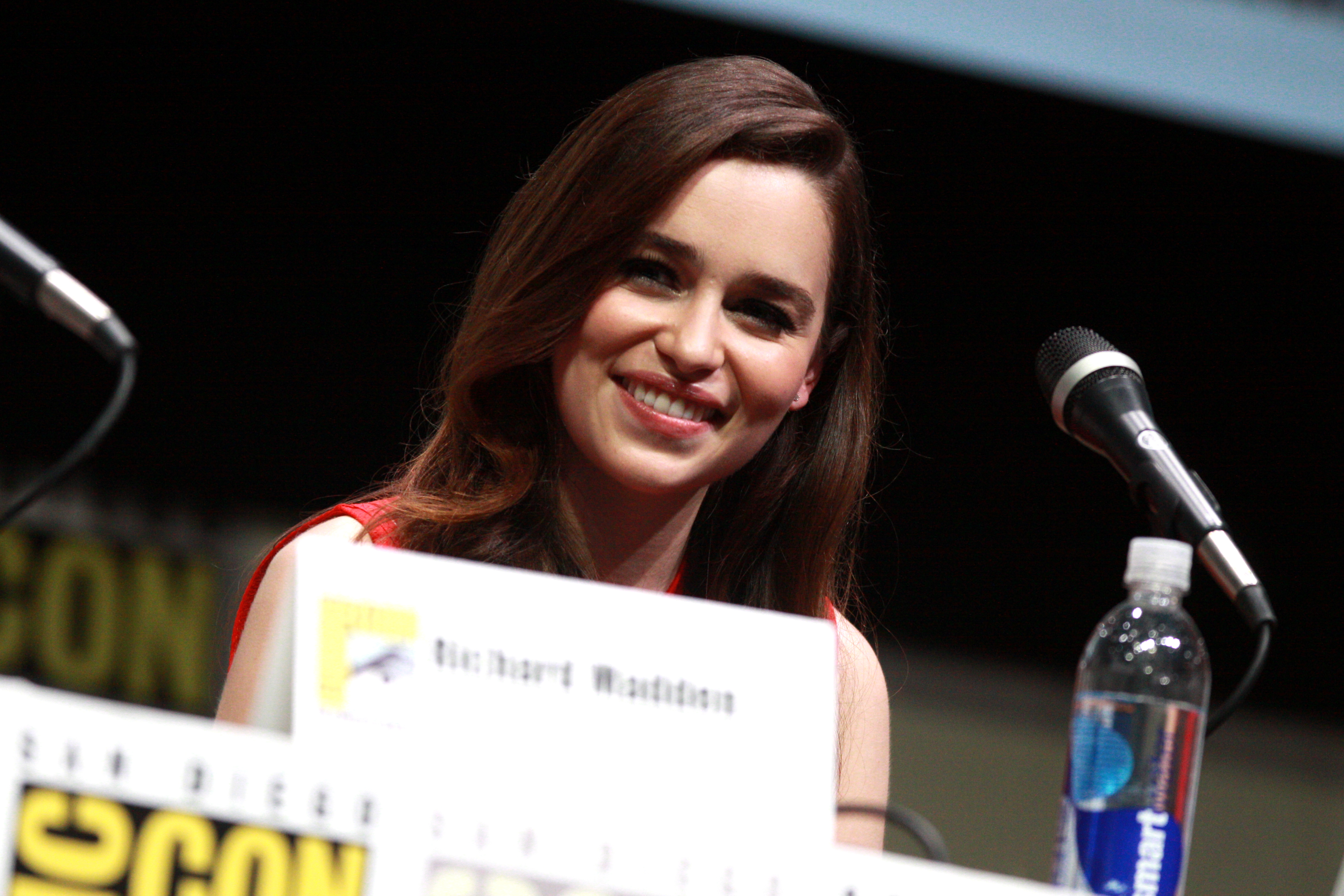 Emilia Clarke speaking at the 2013 San Diego Comic Con International, for "Game of Thrones", at the San Diego Convention Center in San Diego, California.